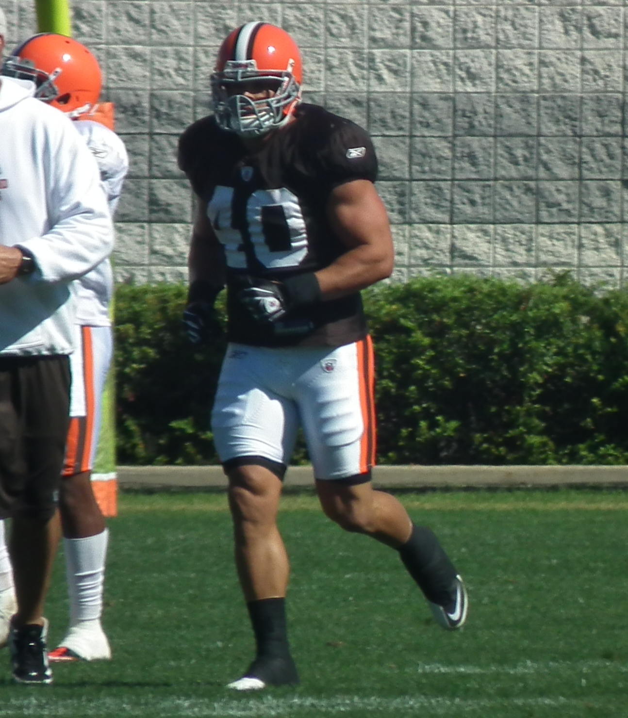 Peyton Hillis of the Cleveland Browns